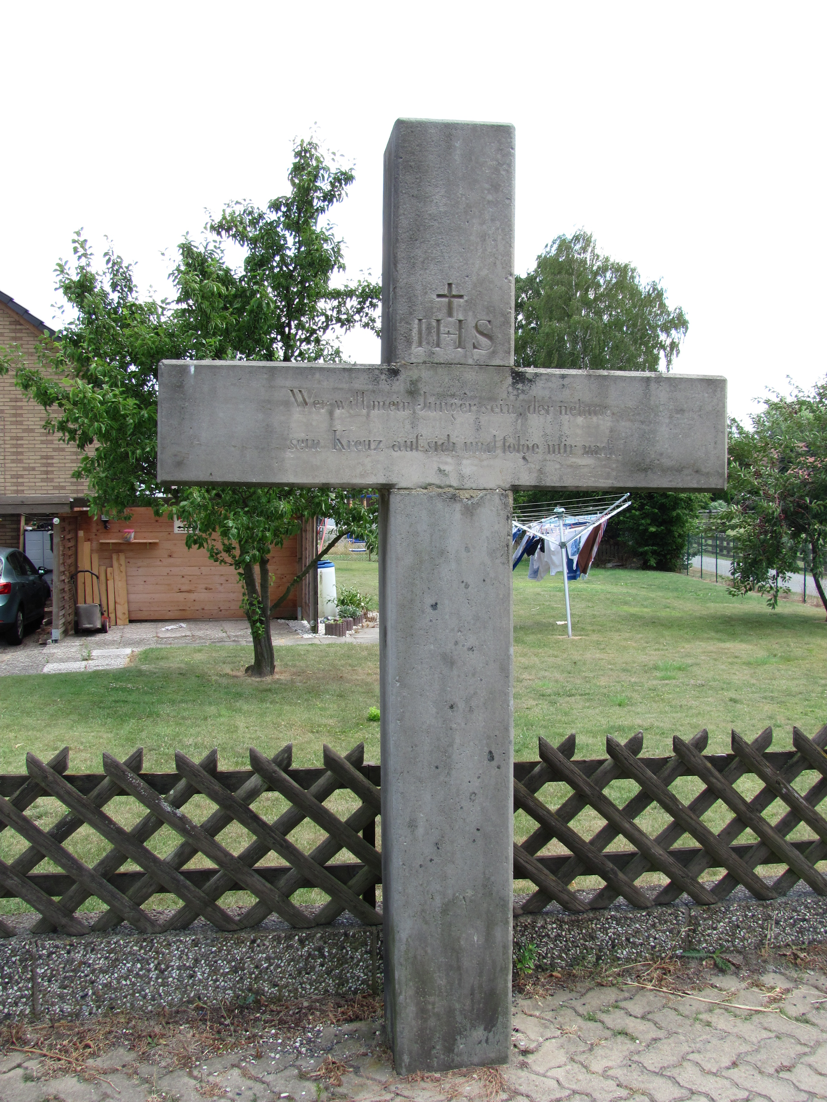 Stone cross (1860), Diekholzen-Barienrode, Germany